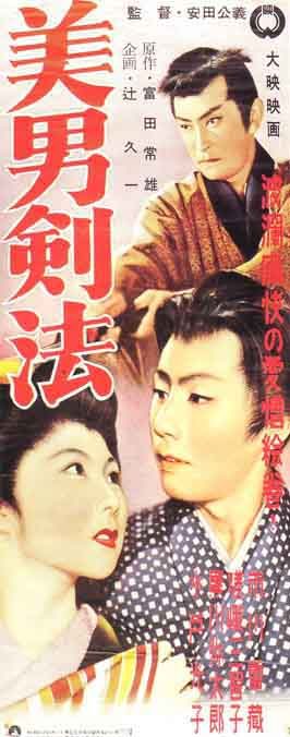 Japanese movie poster for 1954 Japanese film Young Swordsman (潮出来島 美男剣法 Itako Dejima Binan Kenpō).